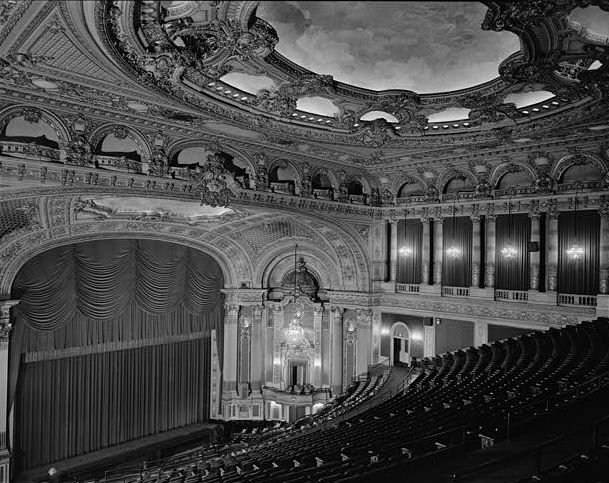 Interior of the B.F. Keith Memorial Theatre, Boston. Opened in 1928. Designed by Thomas W. Lamb.